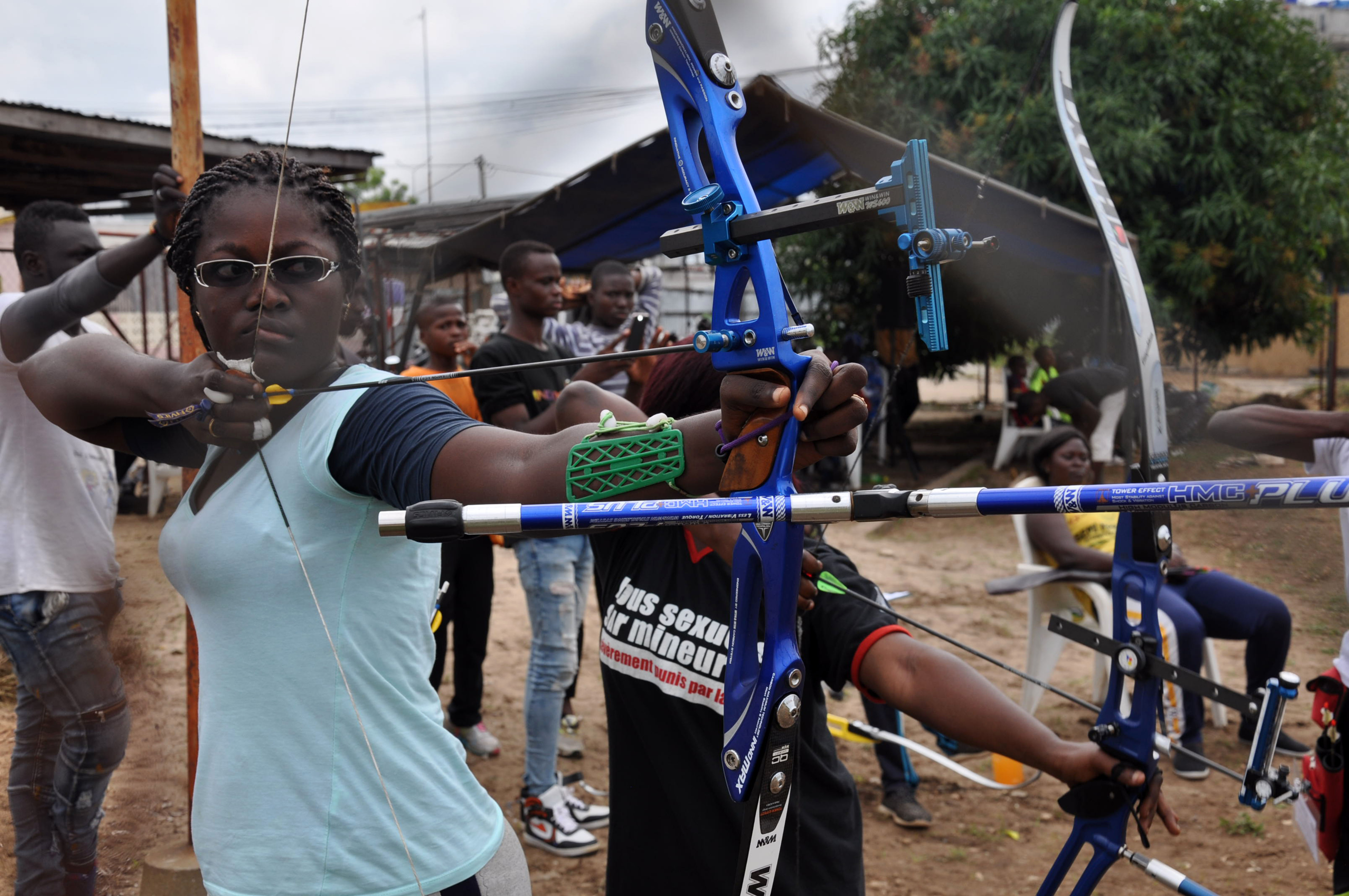 the archery champion practices for the next championship This is an image with the theme "Africa on the Move or Transport" from: Benin